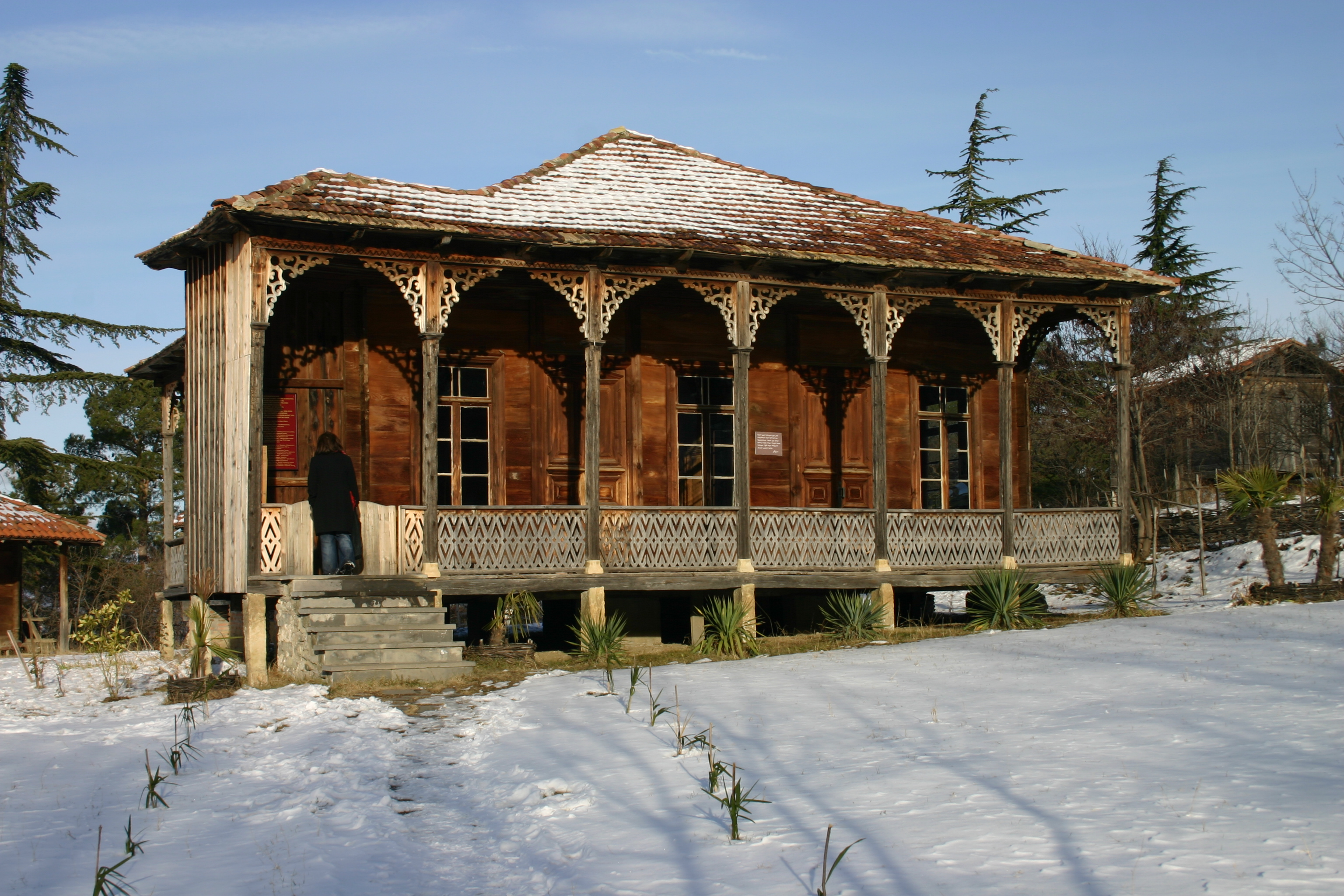 Ethnographic museum, Tbilisi in Jan 2013 after a little snow